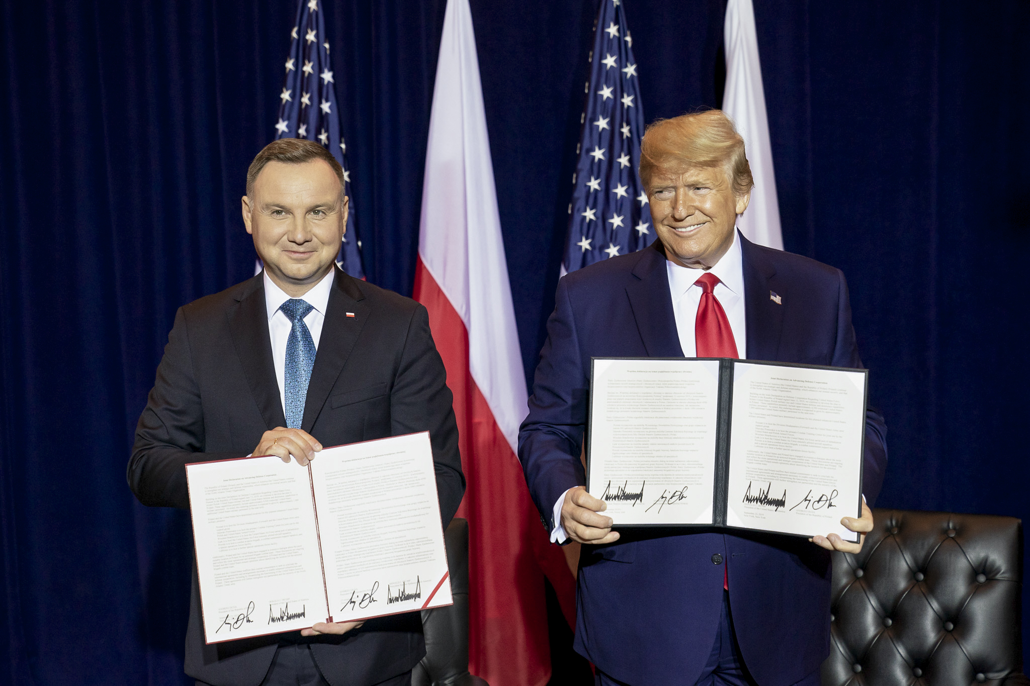 President Donald J. Trump participates in a signing ceremony with Polish President Andrzej Duda Monday, Sept. 23, 2019, at the InterContinental New York Barclay in New York City. (Official White House Photo by Joyce N. Boghosian)